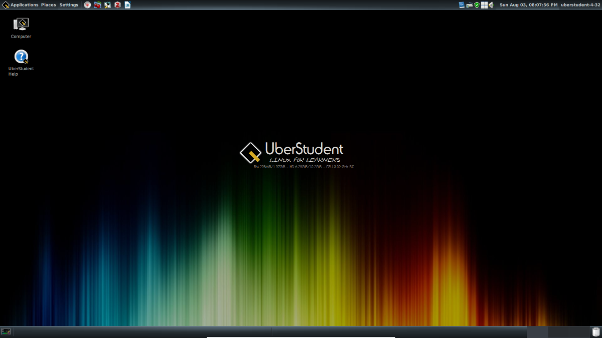 UberStudent 4.0 full edition default desktop. The logo depicted and name are trademarked.